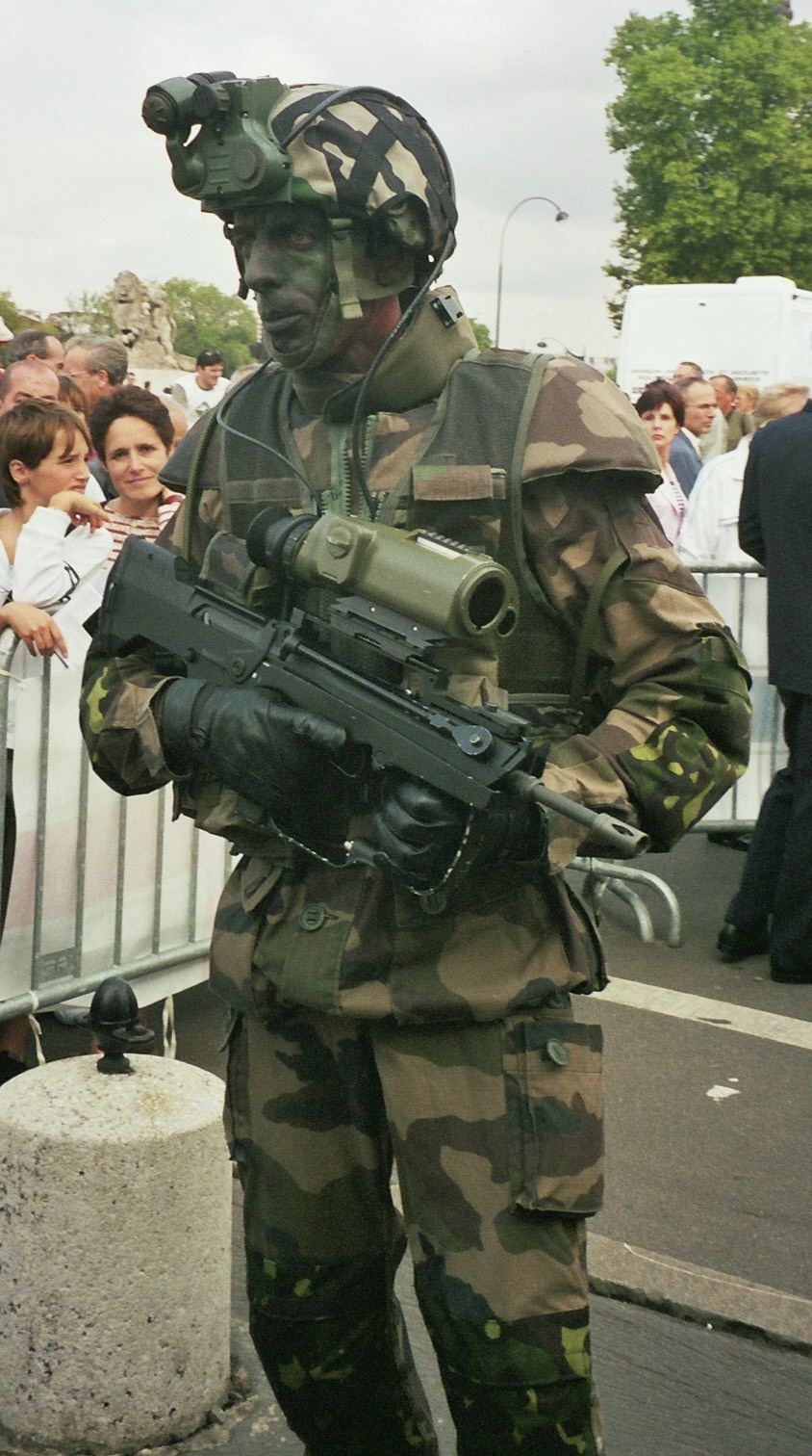 Nation/Defense days, Esplanade des Invalides, Paris, France, September 24-25, 2005